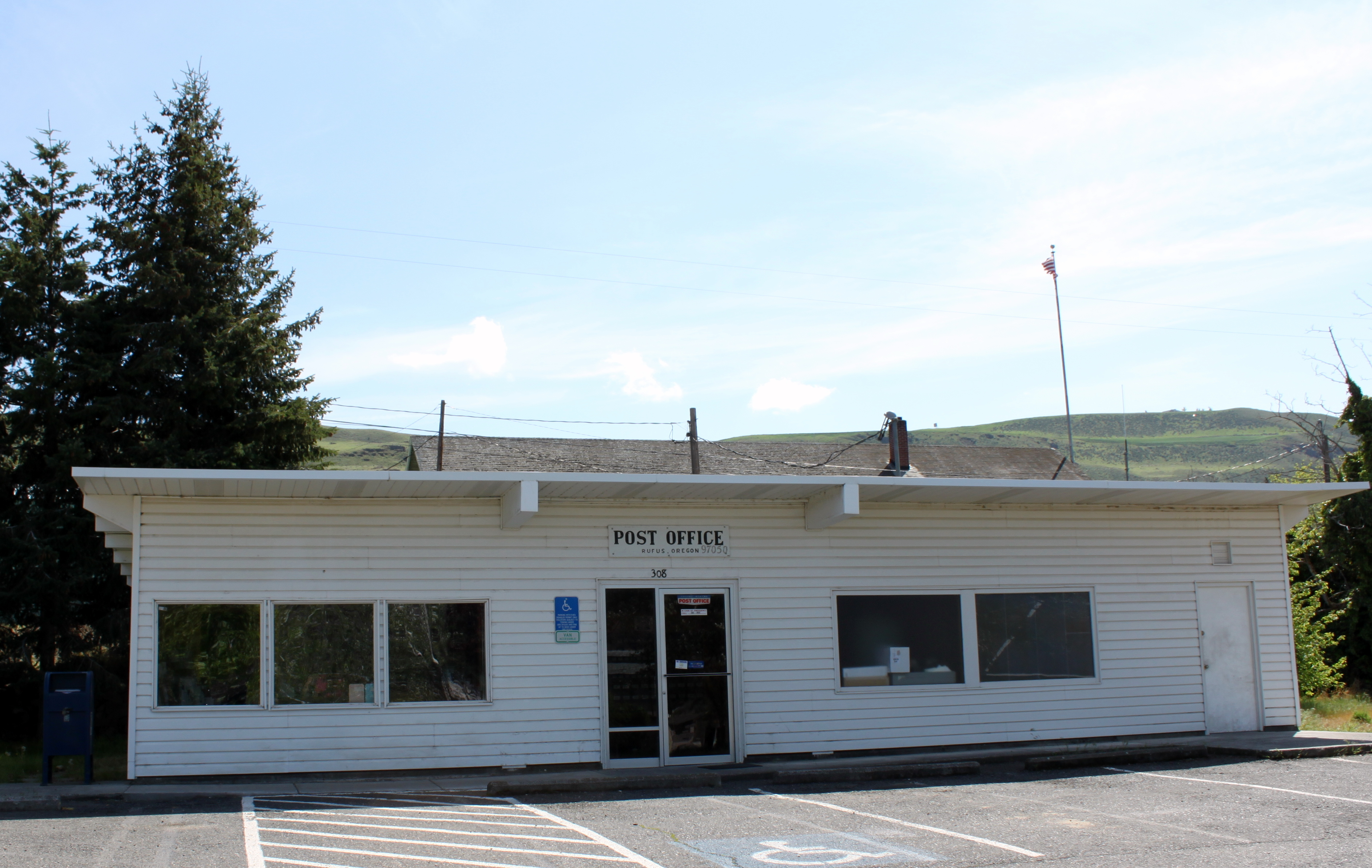 Post office in Rufus, Oregon.